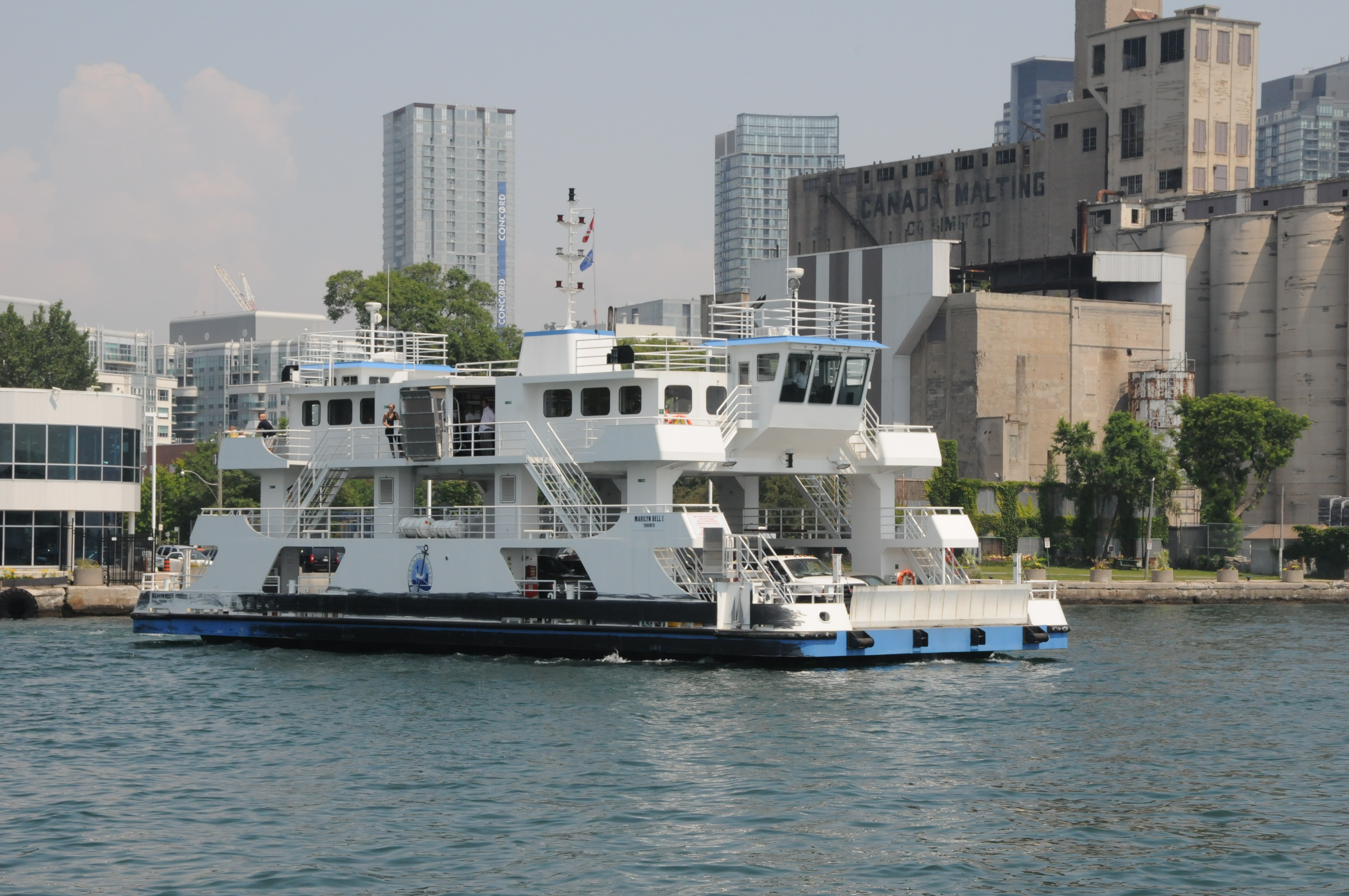 Marilyn Bell I, operating for Toronto Port Authority